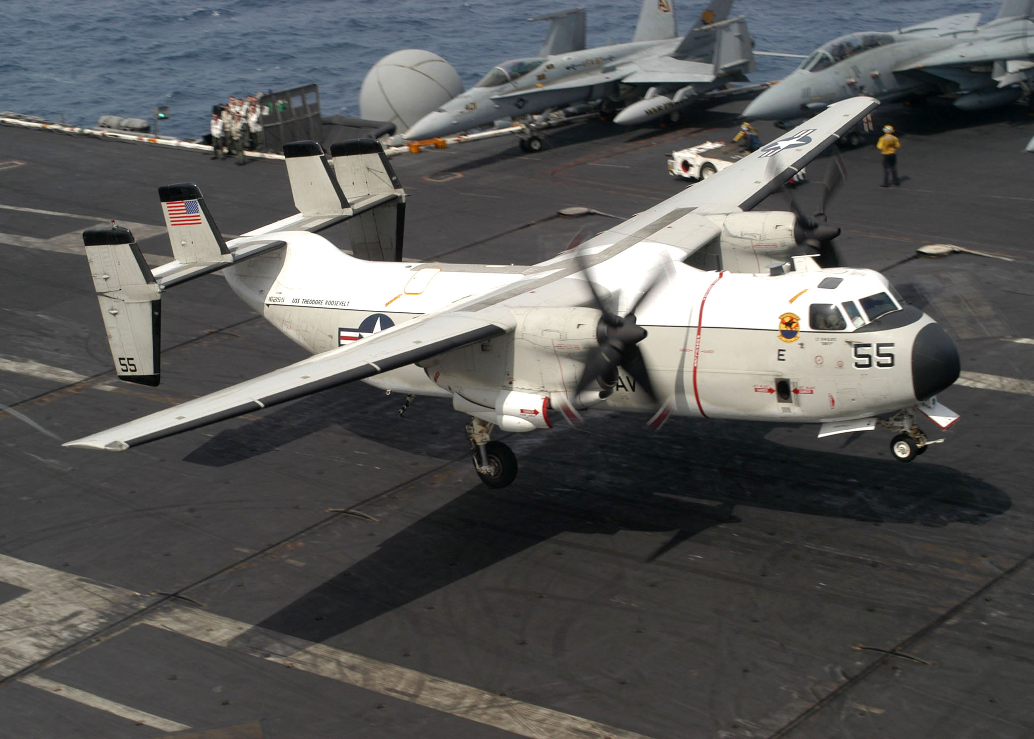 Mediterranean Sea (Apr. 30, 2003) -- A C-2A Greyhound assigned to the "Rawhides" of Fleet Tactical Support Squadron Forty (VRC-40) lands on the flight deck of USS Theodore Roosevelt (CVN 71), which is currently deployed conducting operations in support of Operation Iraqi Freedom. Operation Iraqi Freedom is the multi-national coalition effort to liberate the Iraqi people, eliminate Iraq’s weapons of mass destruction and end the regime of Saddam Hussein. U.S. Navy photo by